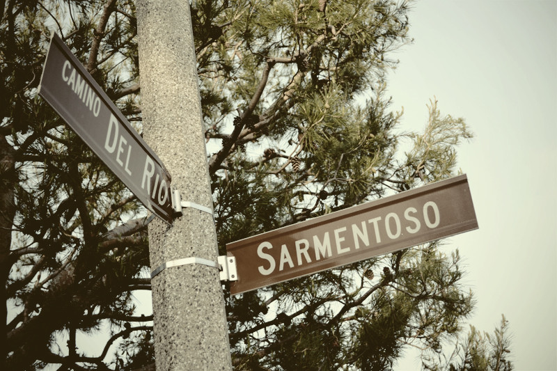 Del Rio and Sermentoso